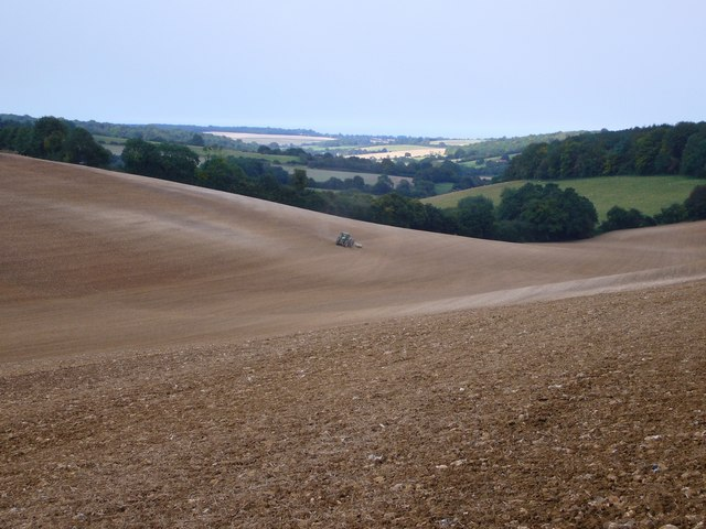 Tractor in Valley at Bavinge Farm This is taken over looking Bavinge valley, the view is toward, Petham with the Shalmford Street to Street End road just below the horizon. The tractor working on the patchy soils of chalk and clay stand out on cultivated valley below.